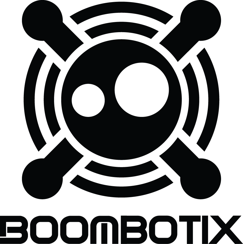 Boombotix logo consists of a character with radiating sound waves. The crossbones are symbolic of the companies dedication to wireless technology.